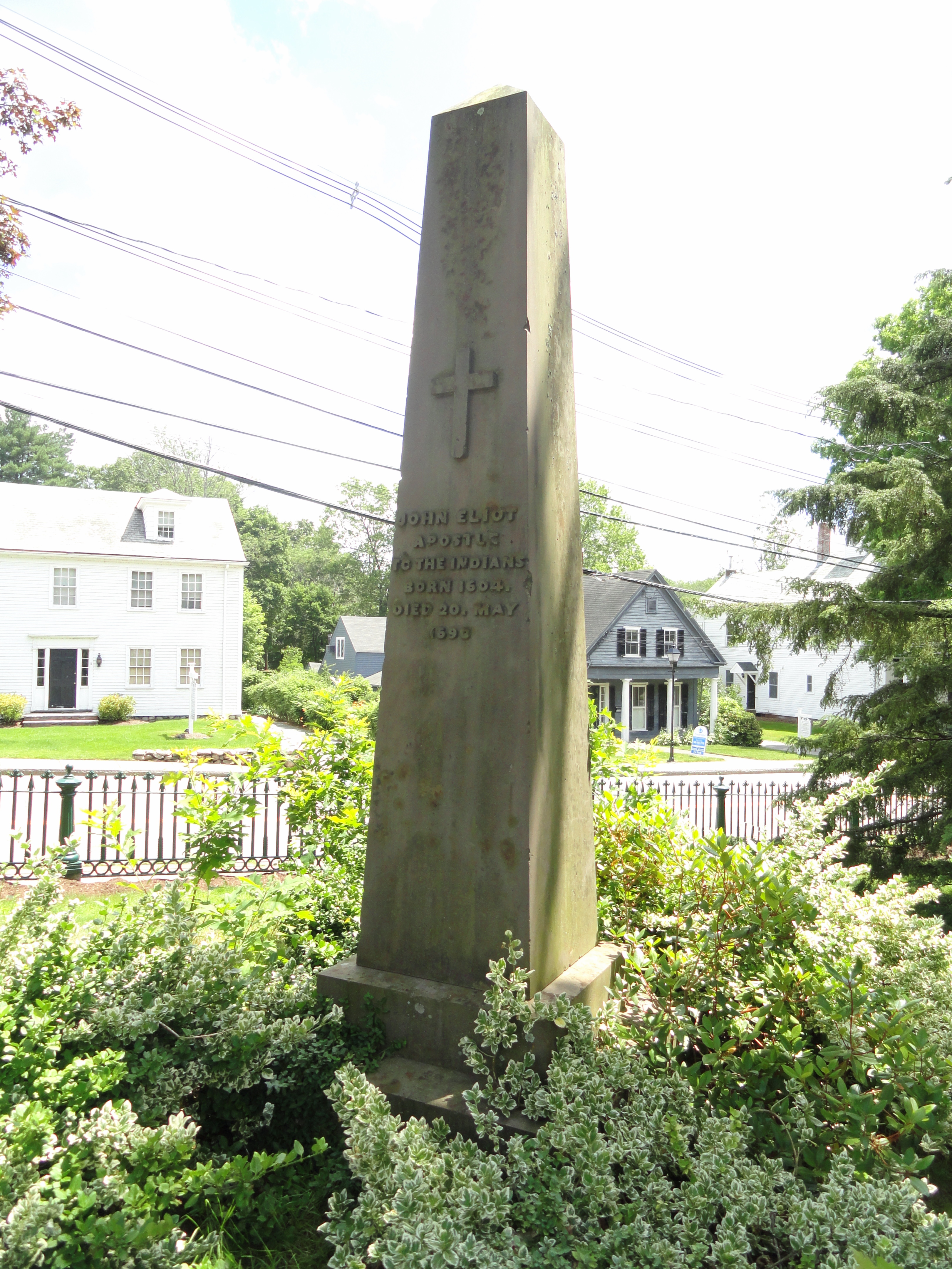 John Eliot monument, on the grounds of the Bacon Free Library, 58 Eliot Street, South Natick, Massachusetts, USA.